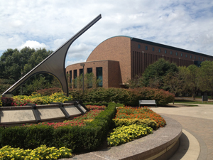 Home of the Drake University Law Library